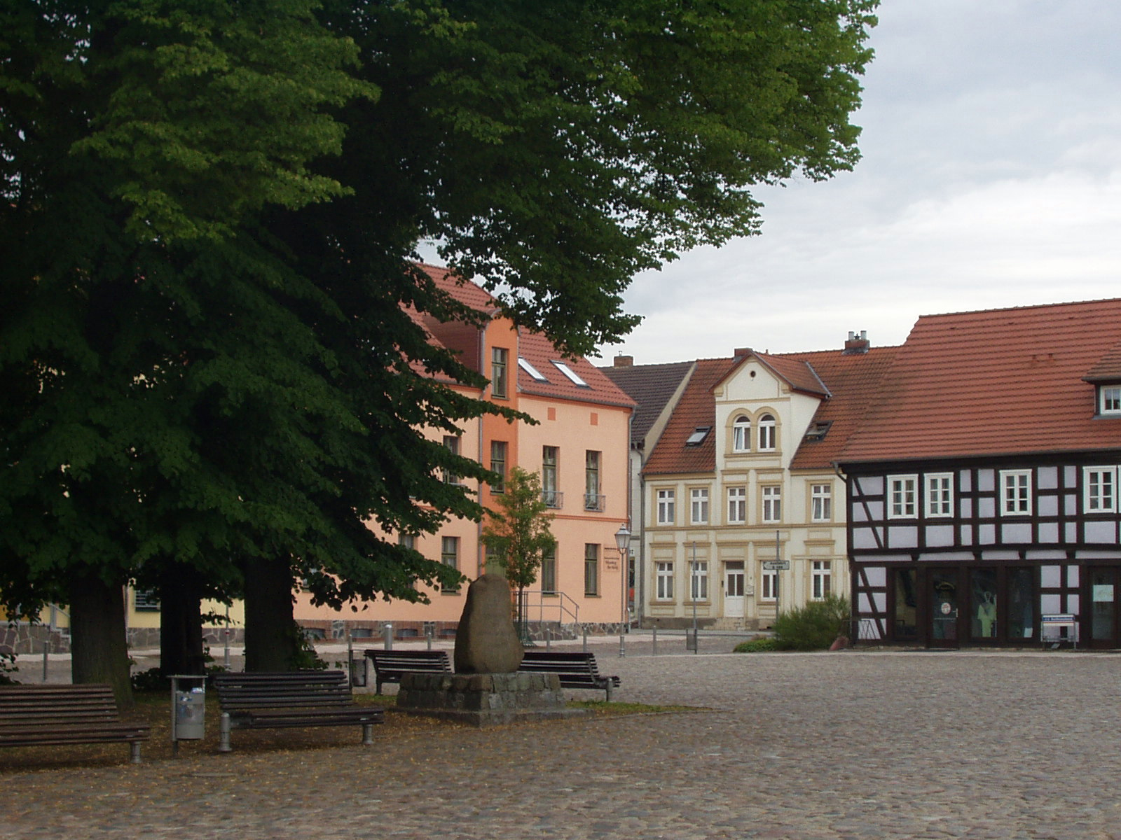 Innercity of Wesenberg, Germany